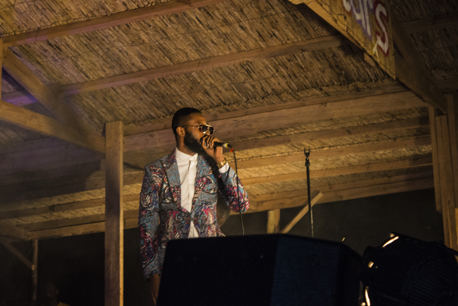 Ric Hassani performing at Lake of Stars in Malawi